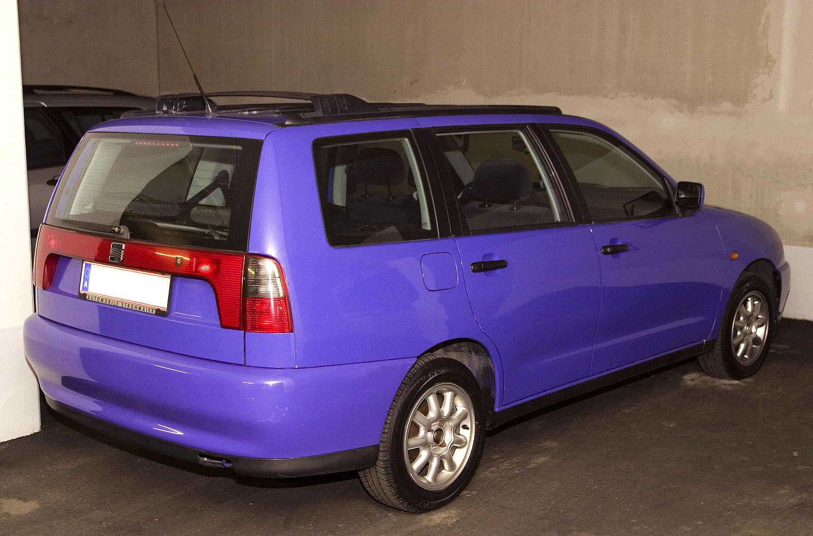 Seat Córdoba Vario (06/1998)